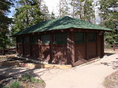 Rainbow Point Comfort Station, Bryce Canyon National Park, Utah, USA. Listed on the National Register of Historic Places.